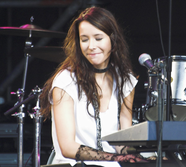 Nerina Pallot at Cornbury Music Festival